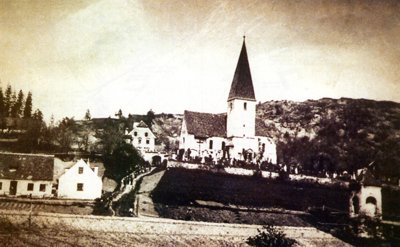 The Margarethenkirche in Voitsberg, shortly befor its demolition in 1890